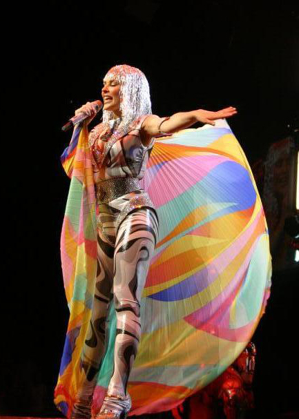 Kylie Minogue concert in Manchester